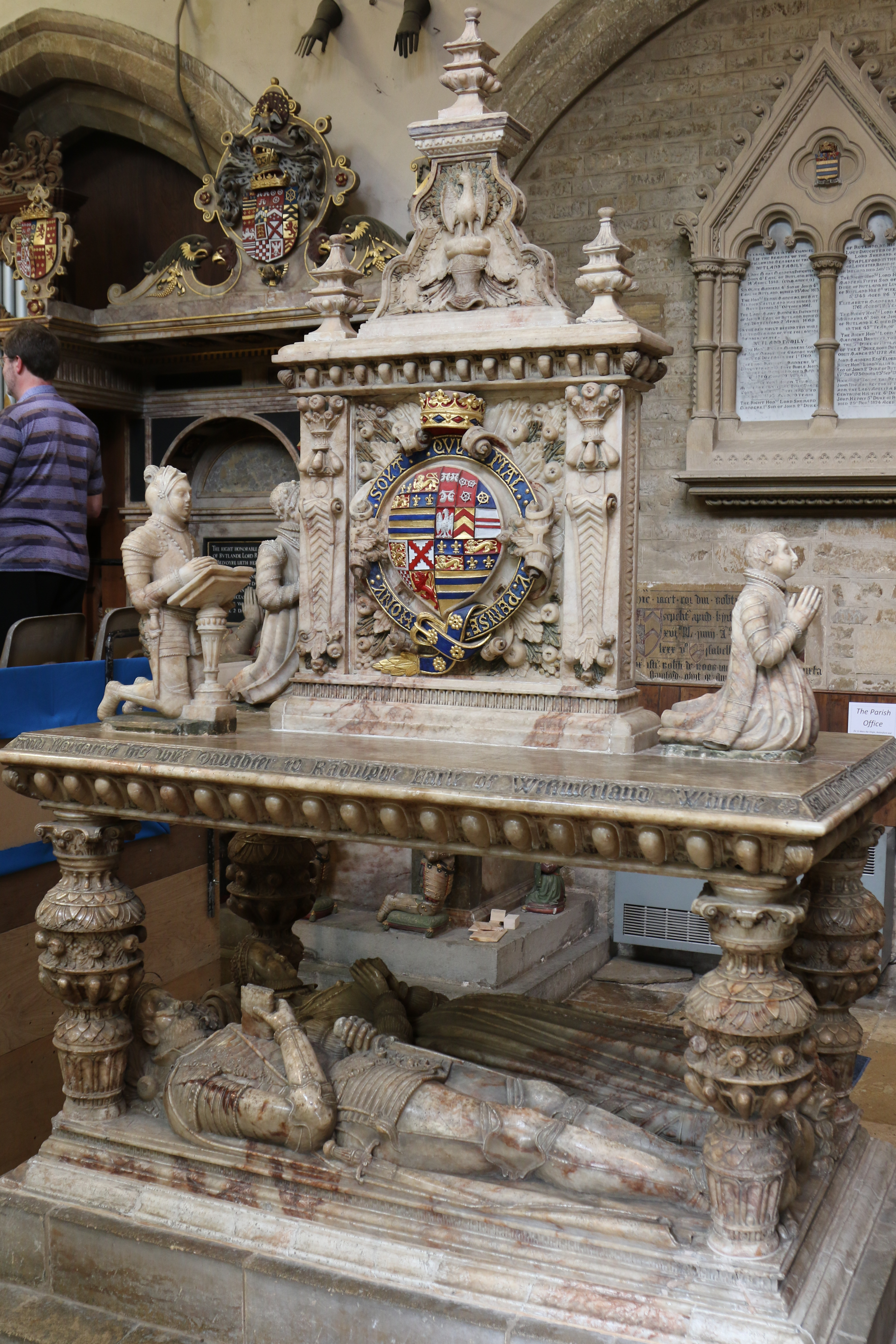 Henry Manners became a favourite of Queen Elizabeth I who made him a Knight of the Garter in 1559, and Lord Lieutenant of Rutland. On 24th Feb he was made Lord President of the North and in 1561 an ecclesiastical commissioner for the reforms of the Church of England that resulted in the Act of Settlement. He died in 1561.